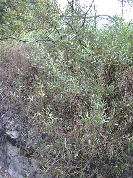 Acacia retinodes1.jpg (Swamp Wattle) Credit : US Geological Survey